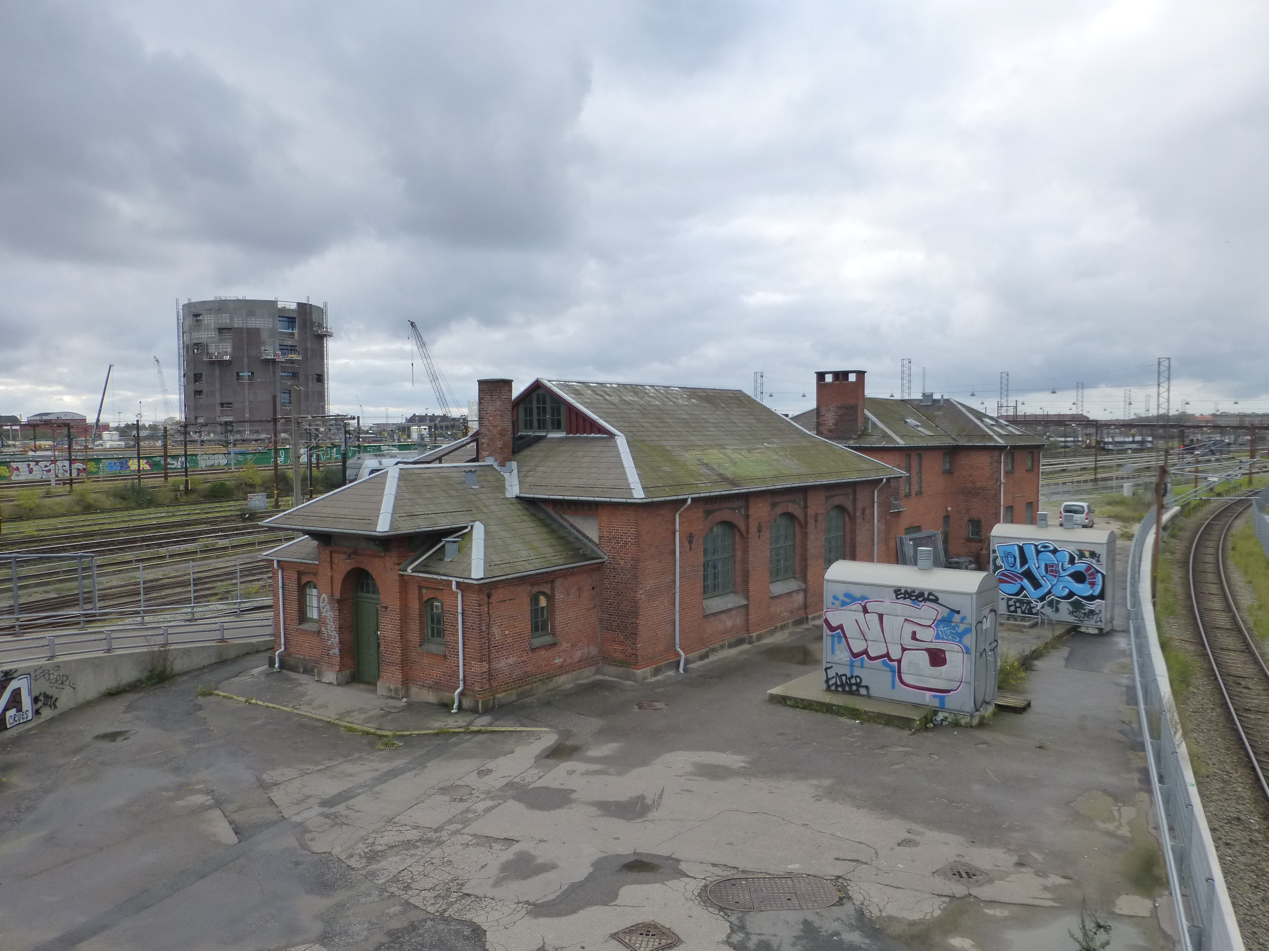 The building Pumpestationen at Dybbølsbro in Vesterbro in Copenhagen. The building was used as location for the third season of the Danish television serie Pendlerkids in 2014.